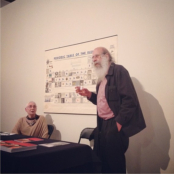 Sonya Rapoport (left) and Malcolm Margolin (right) in March 2012.